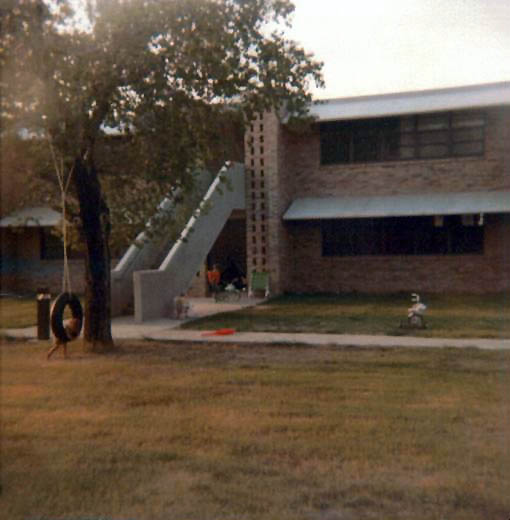 I took photo in 1981.Billy Hathorn (talk) 00:21, 12 October 2008 (UTC)